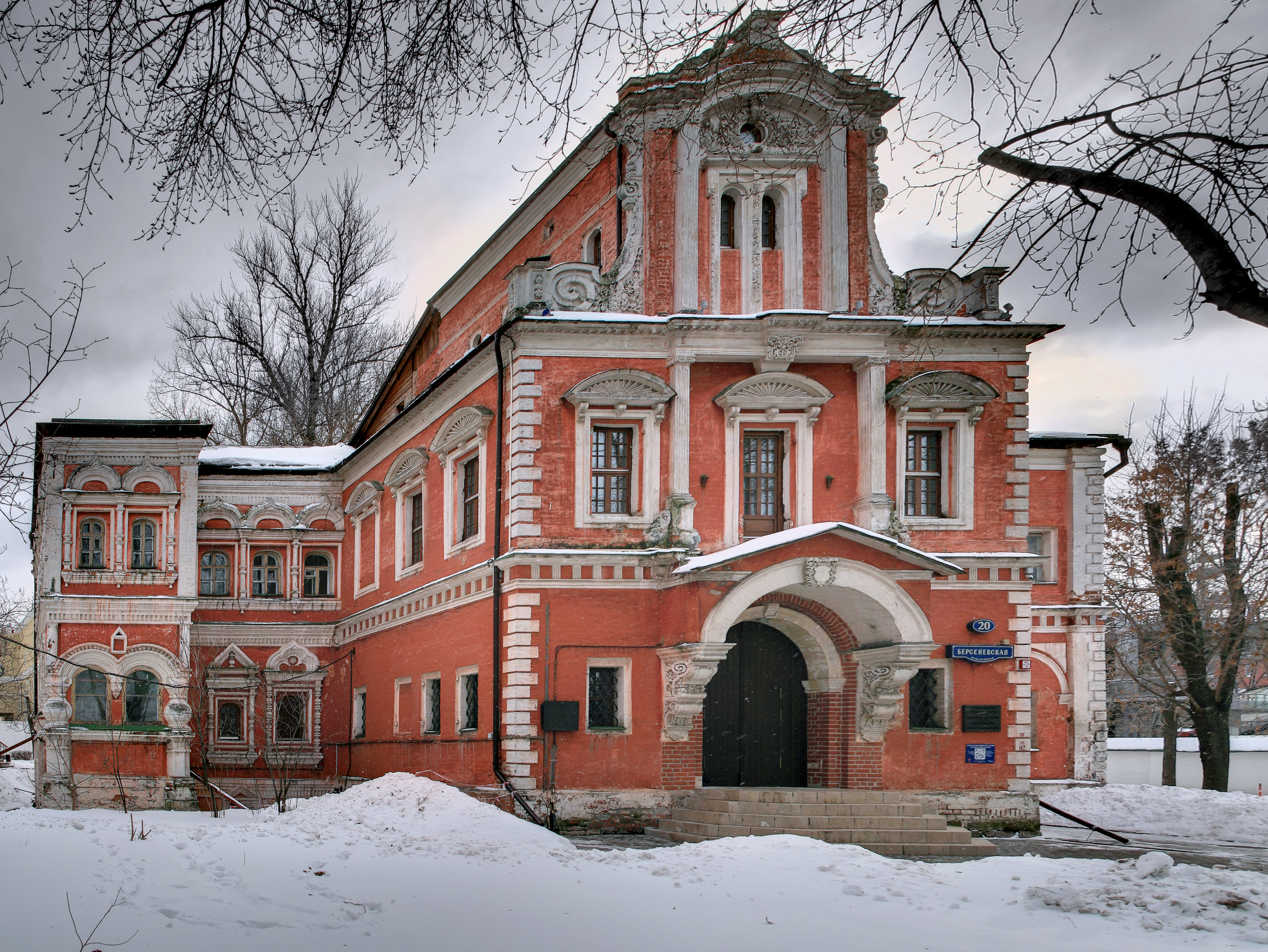 Averkiy Kirillov's Palace, Bersenevskaya Embankment 18-20-22, Moscow